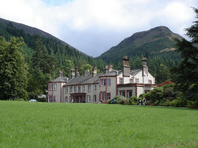 Mirehouse, near Bassenthwaite Lake. Mirehouse was owned by the Spedding family, who regularly entertained the likes of Thomas Carlyle, Edward Fitzgerald and Lord Tennyson.